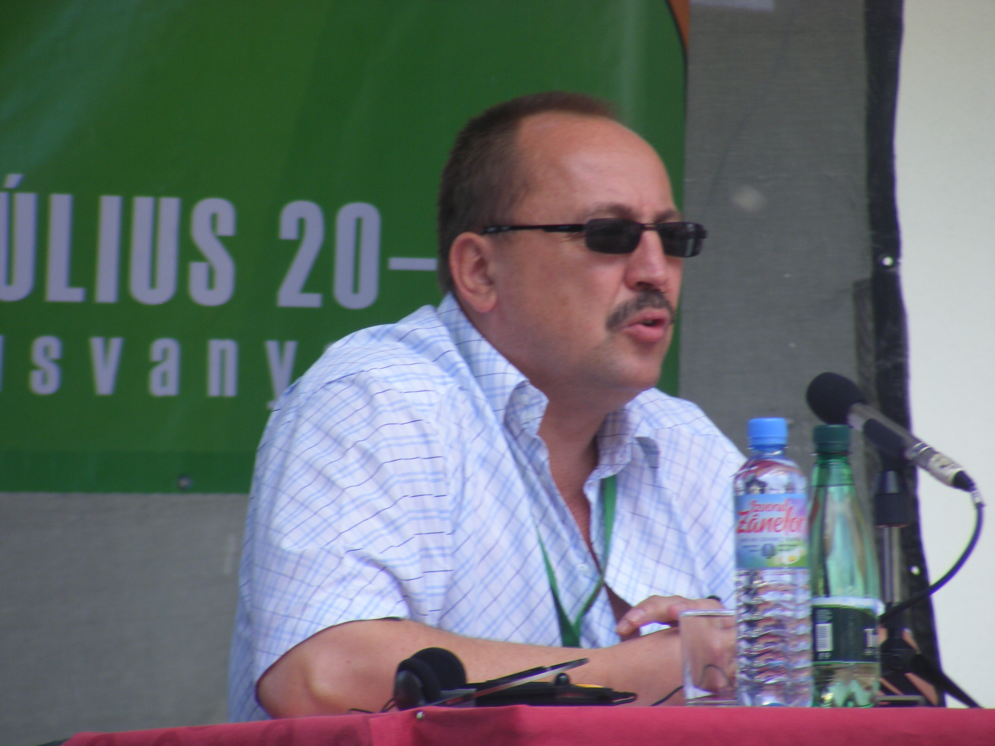 Zsolt Németh the viceprezident of Fidesz